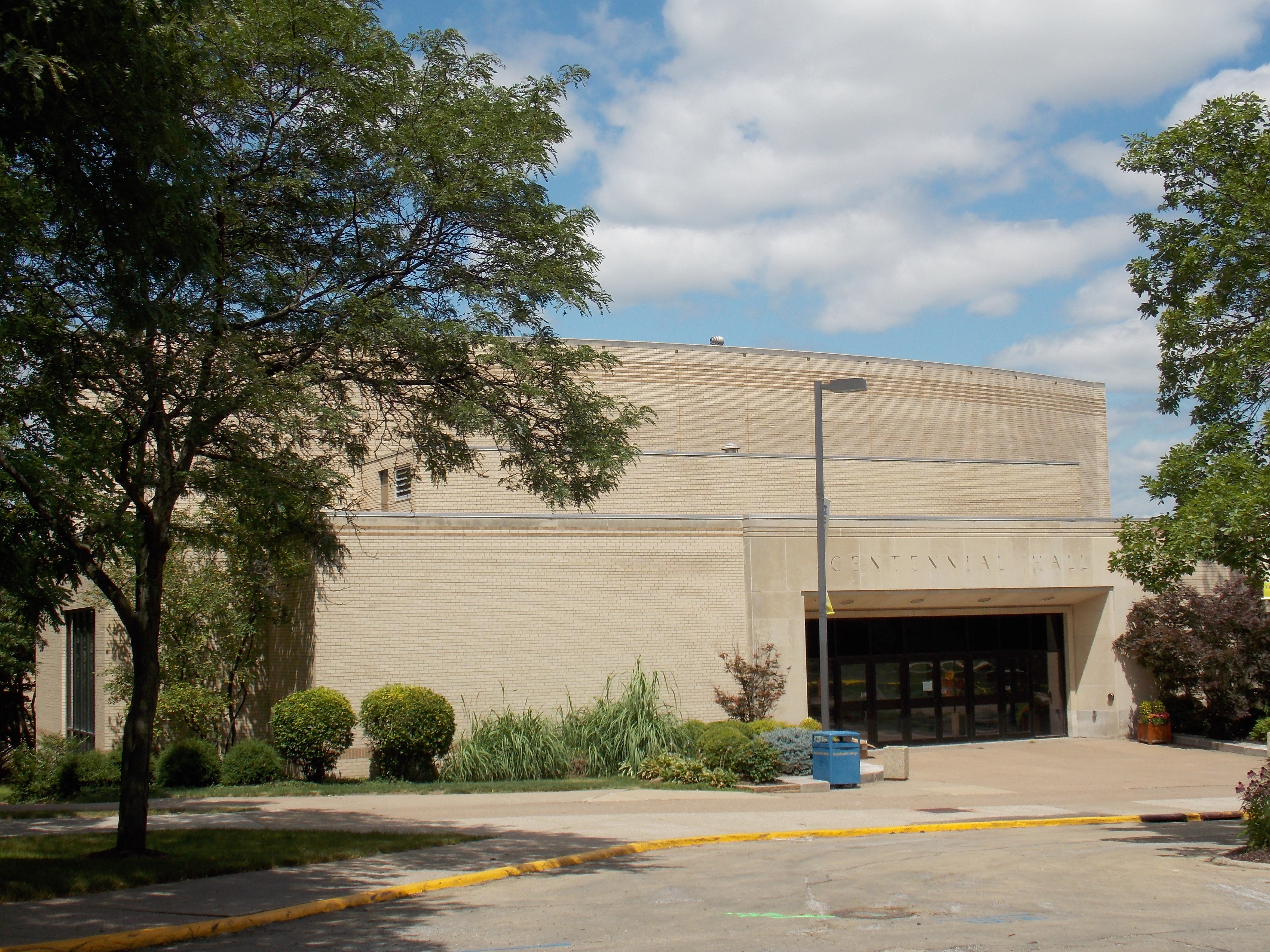 Centennial Hall on the campus of Augustana College in Rock Island, Illinois.